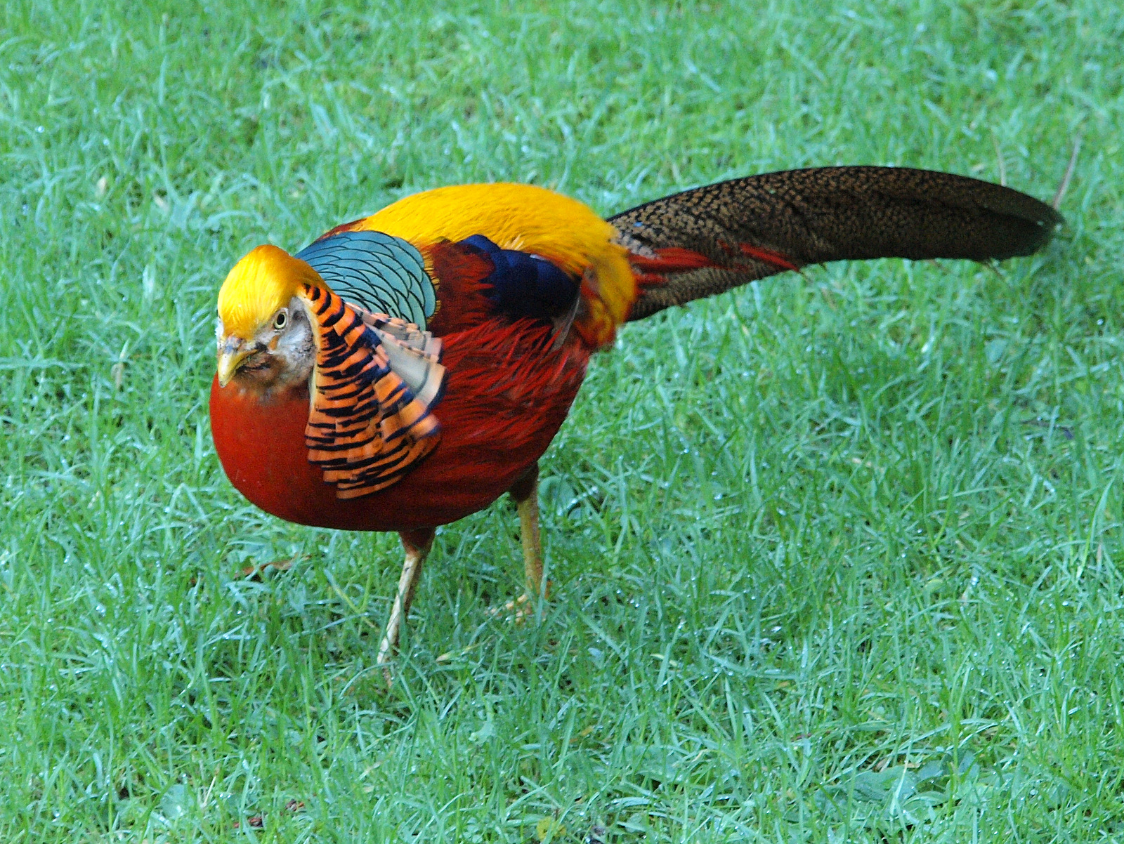 A Golden Pheasant at Royal Botanic Gardens, Kew, London, England.